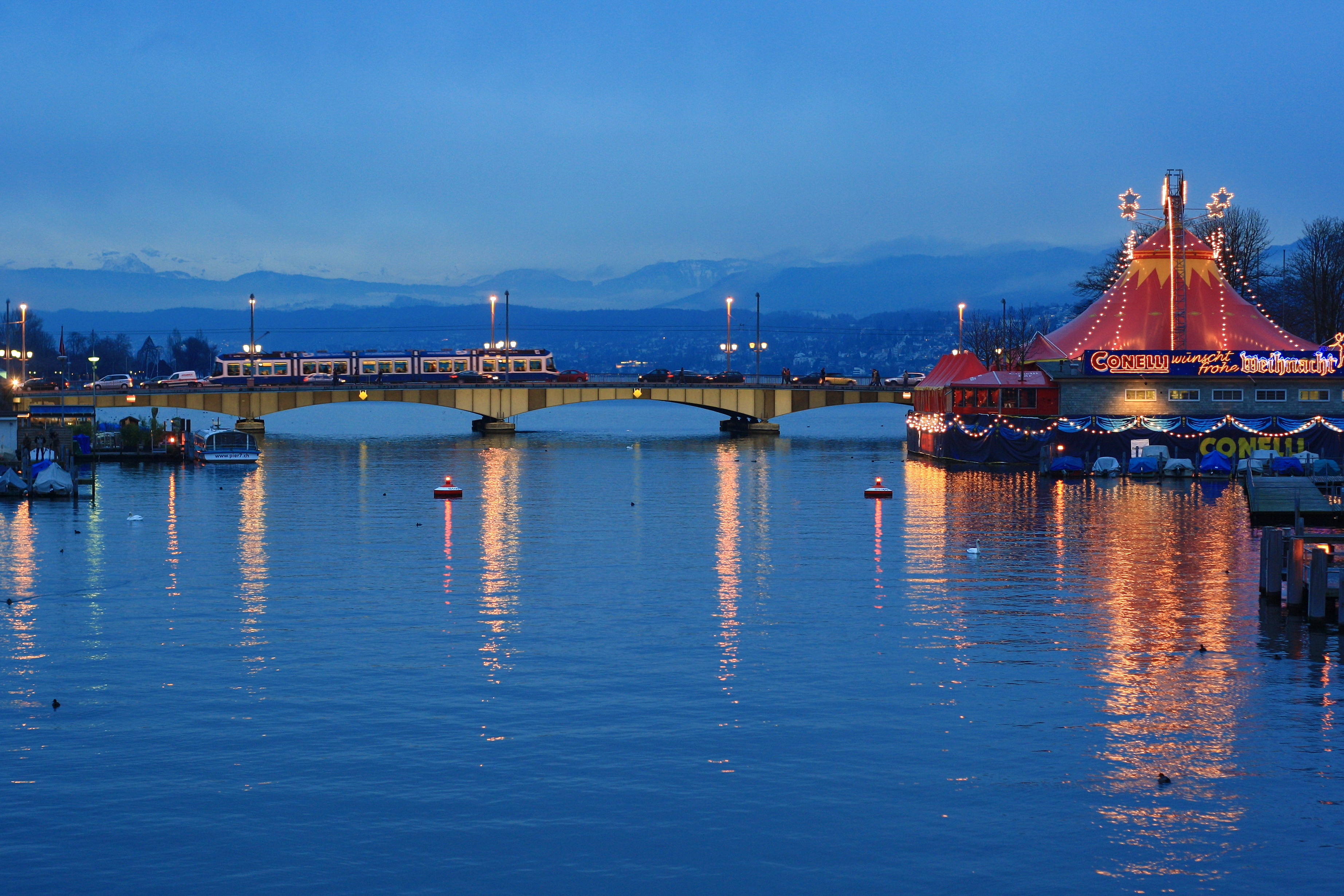 Quaibrücke illuminated by the so-called Plan Lumière, as seen from Münsterbrücke, Circus Conelli on Bauschänzli in Zürich (Switzerland) to the right.